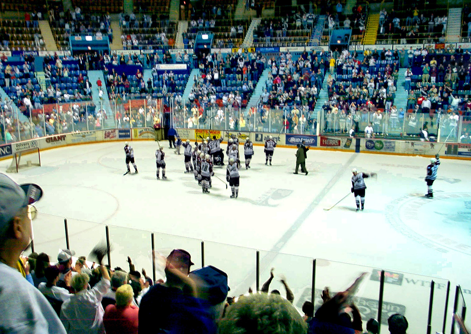 Farewell by Hershey Bears players after the last Calder Cup playoff game at HersheyPark Arena, Hershey, PA May 4, 2002